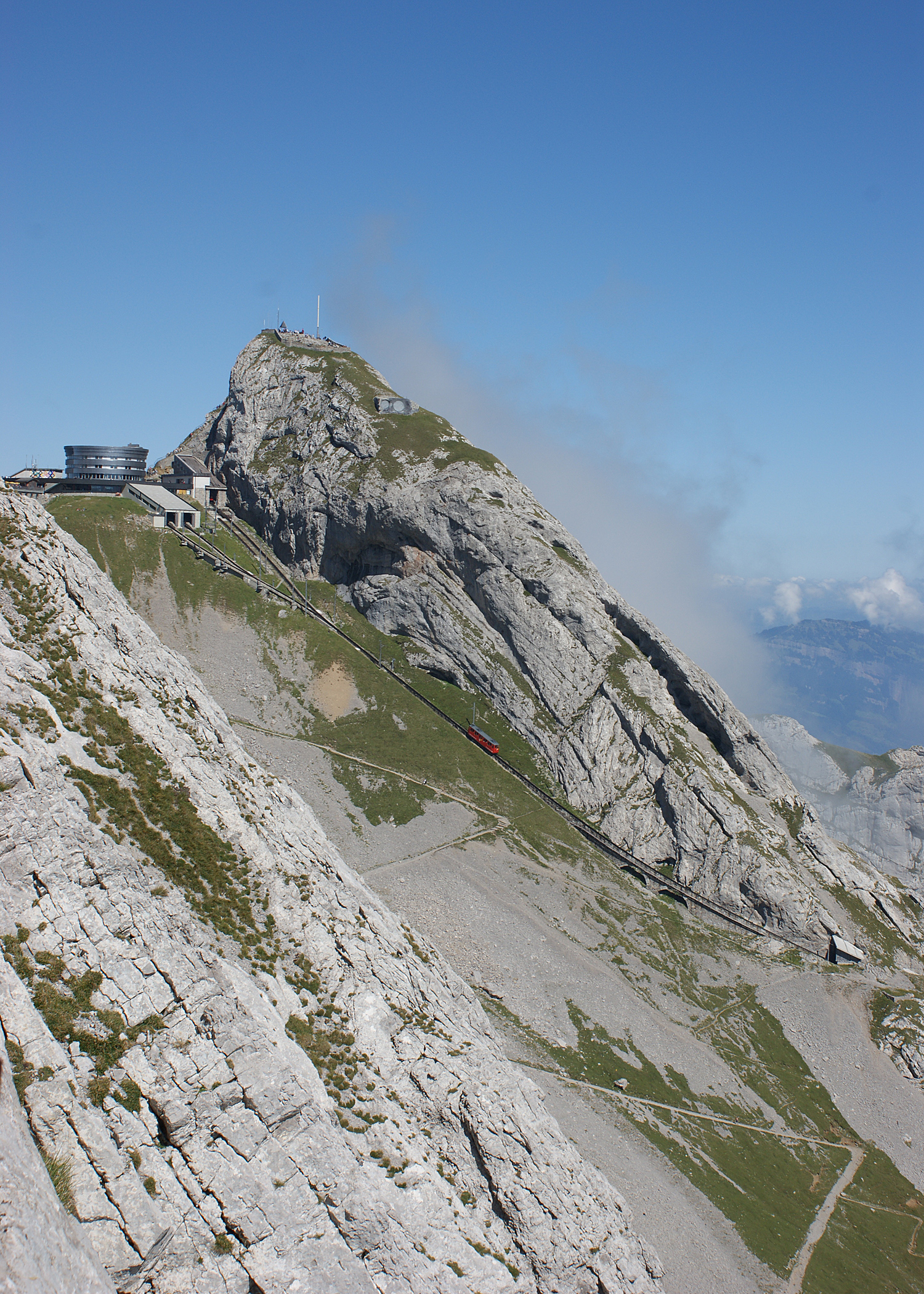 Mount Pilatus, Switzerland: Esel peak (2118 m), restaurant Kulm (2073 m) and the Pilatusbahn